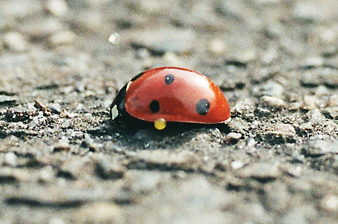 A specimen of Coccinella septempunctata showing the phenomenon of autohaemorrhaging (aka reflex bleeding).